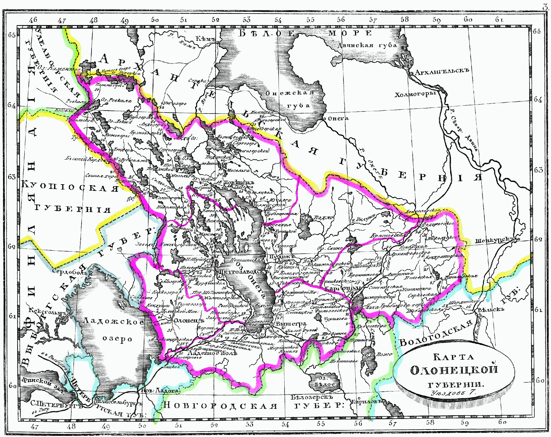 Map of Olonets Governorate, 1835